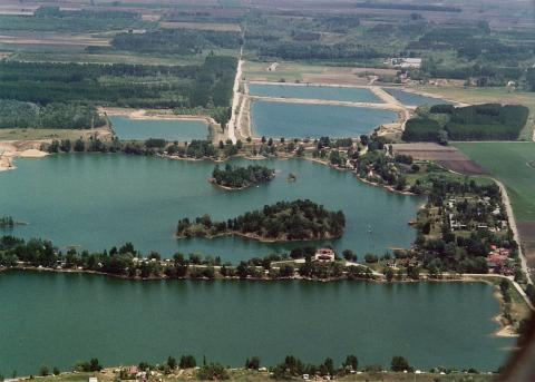 Délegyháza, Hungary, aerial photography; Lake number 5. One of the best known naturist places in Hungary